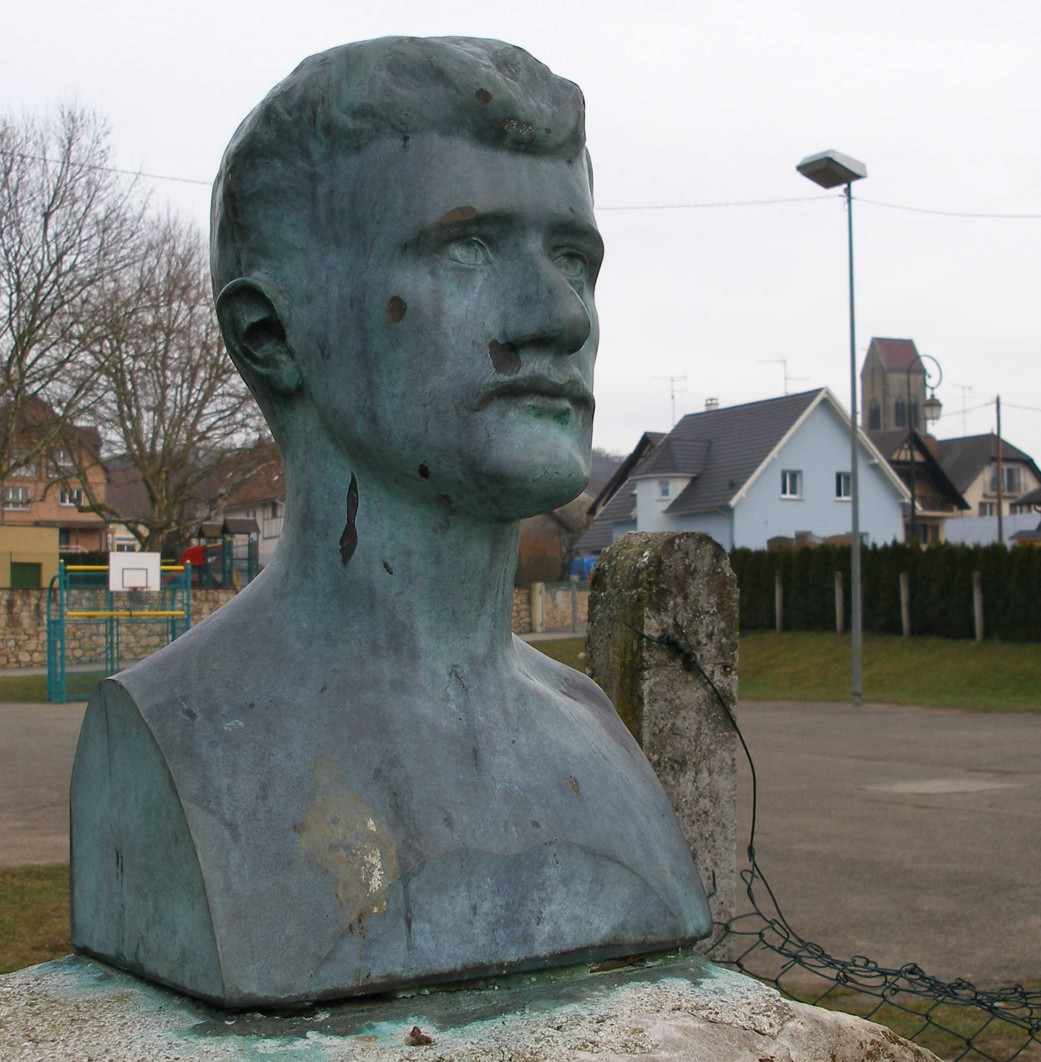 The Alemanic poet Nathan Katz (a statue in his home village of Waldighofen in Sundgau/Alsace)